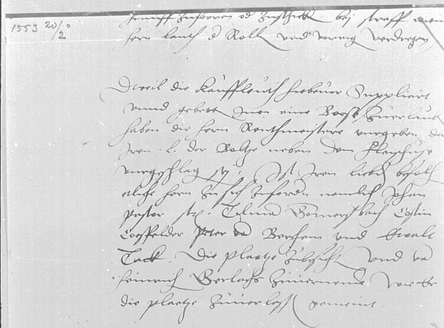 Ratsedikt vom 20.2.1553, betrifft Einrichtung einer Börse in der Bolzengasse in Köln, rba_mf015734.